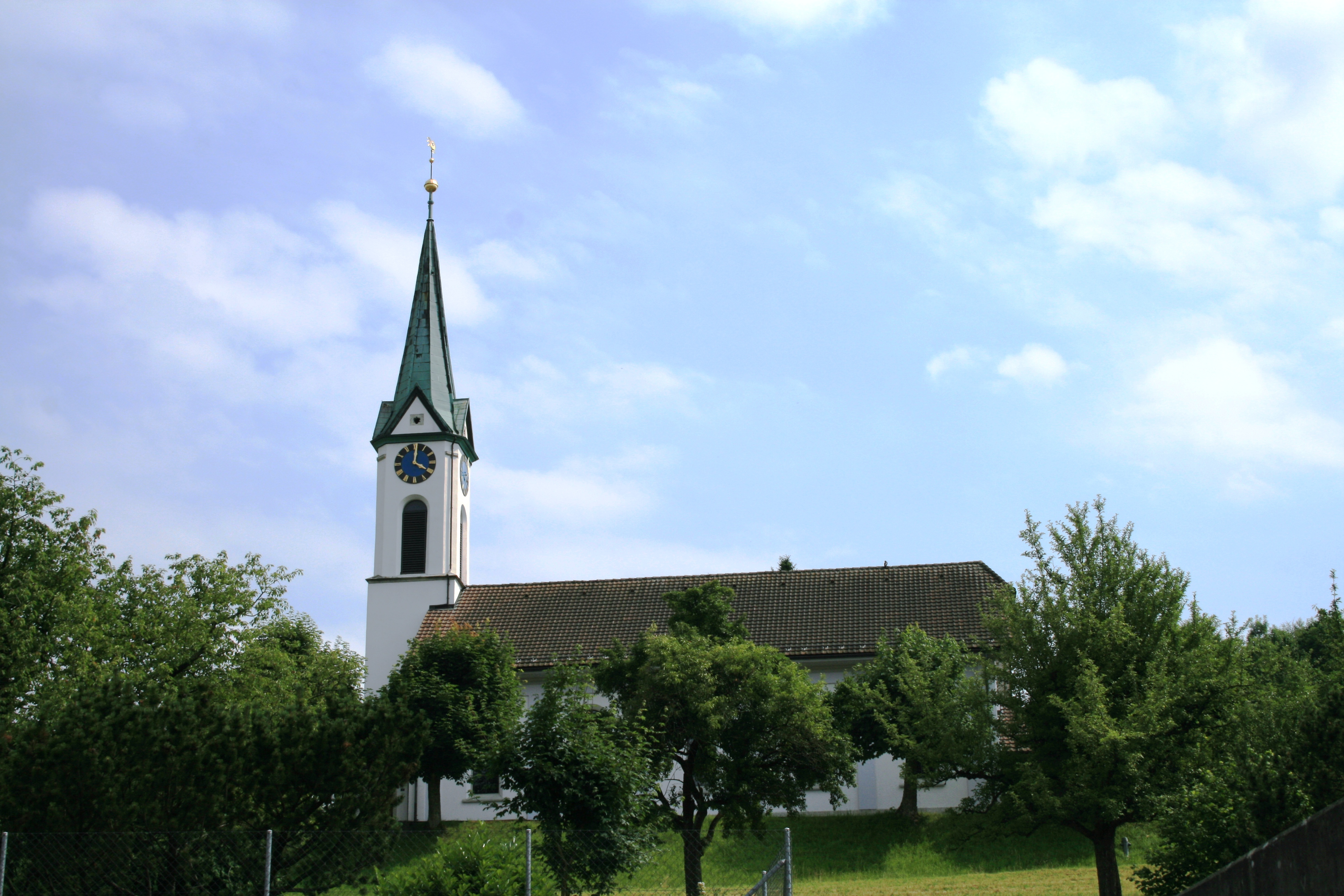 Prot. Church Safenwil AG, Switzerland